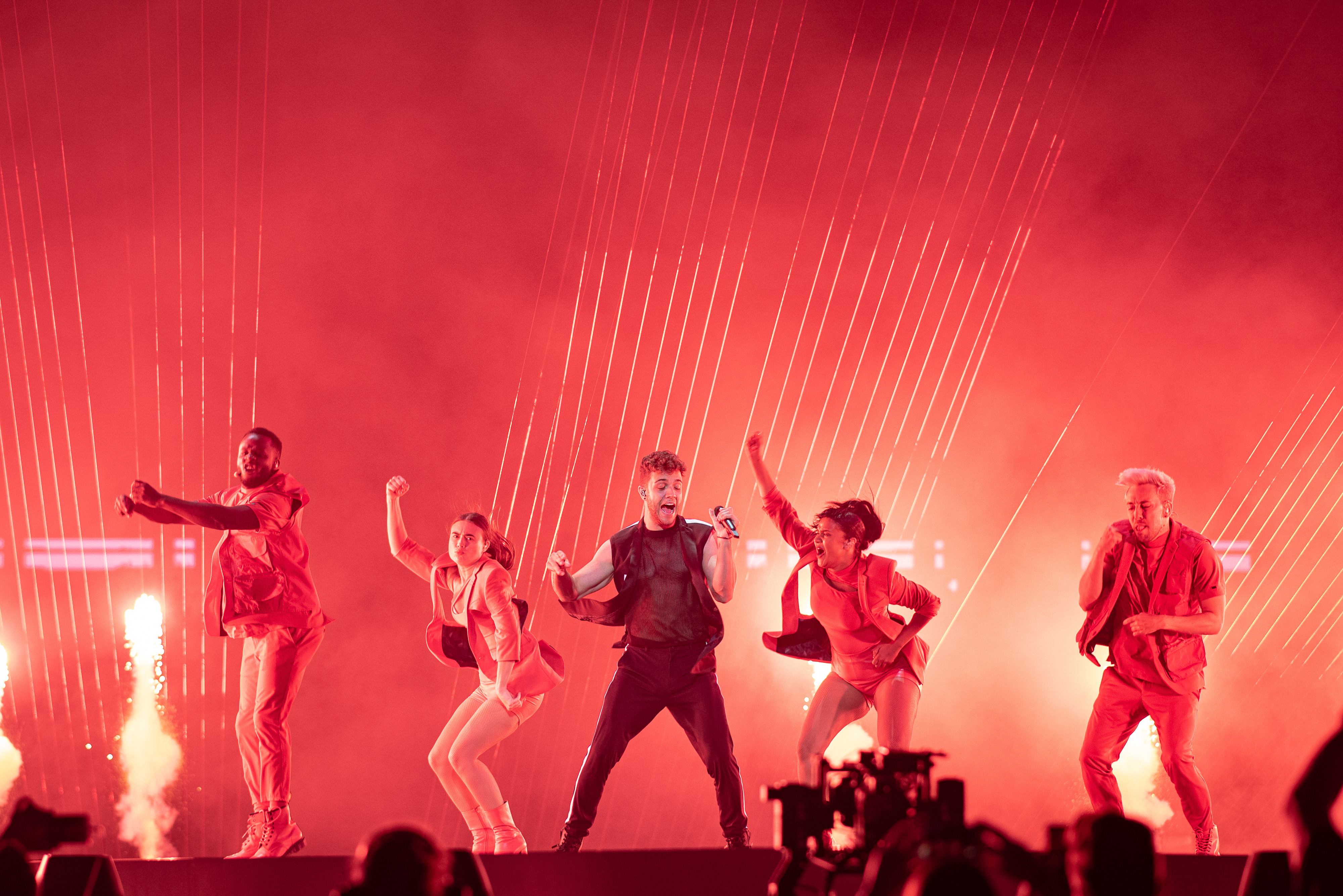 Luca Hänni representing Switzerland with the song "She Got Me" during a rehearsal before the grand final of the Eurovision Song Contest 2019 in Tel-Aviv.